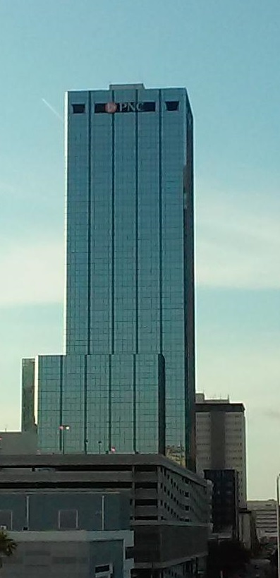 One Tampa City Center seen from Amalie Arena